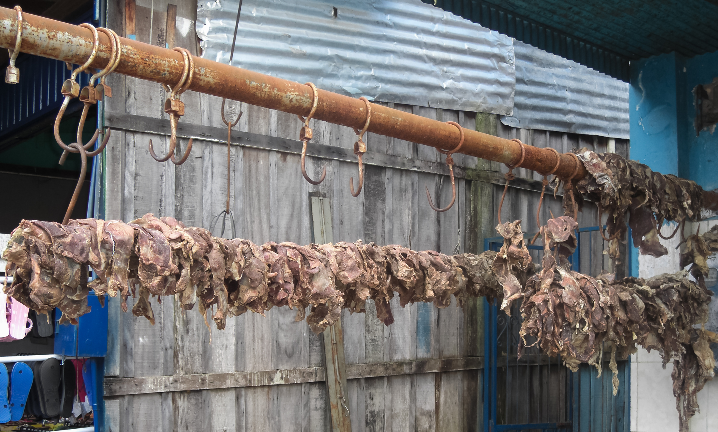 Shop in Pacaraima, Brazil